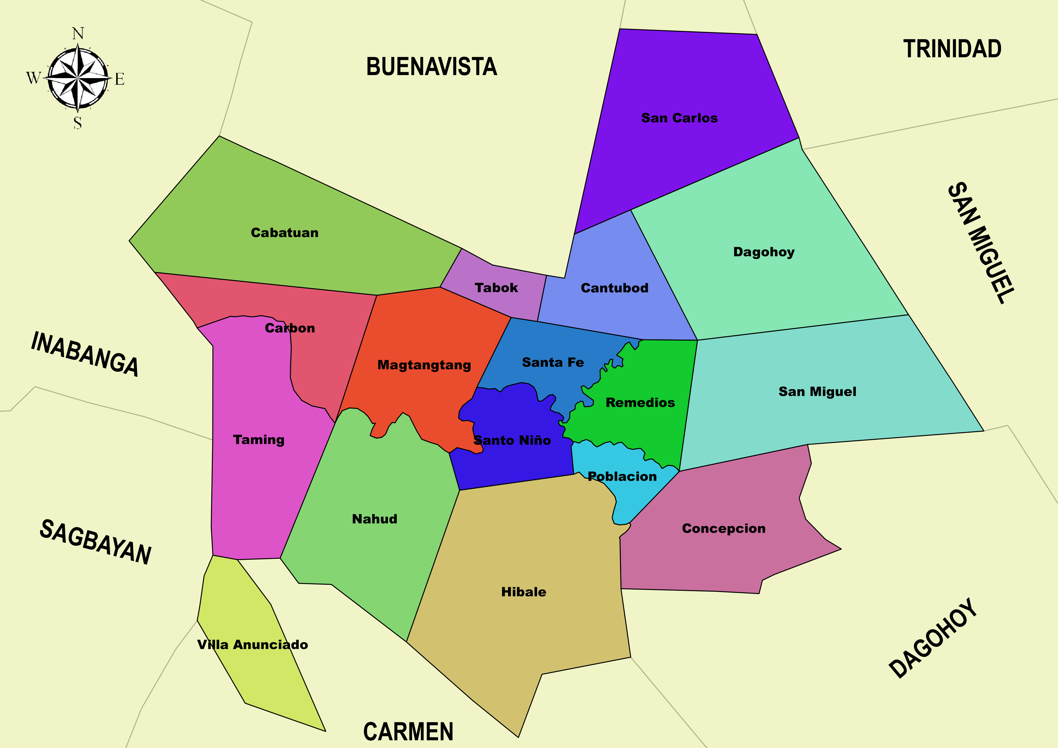 Map of Danao Bohol